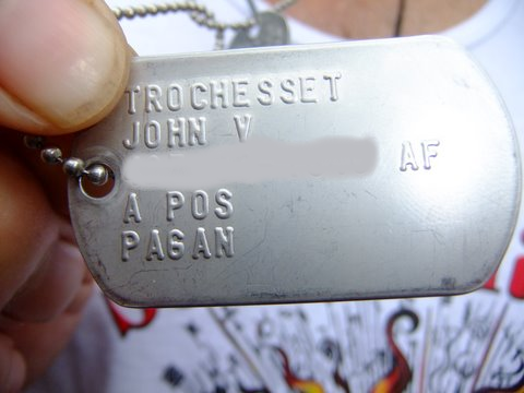 Military ID tags, with religious designation: "Pagan."